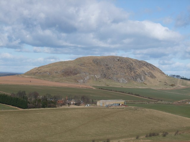 Traprain Law from Balfour Monument In 1919 a hoard of Roman silver was discovered at Traprain during excavations. This is thought to have been a pirate's hoard and is now kept at the Museum of Scotland in Edinburgh